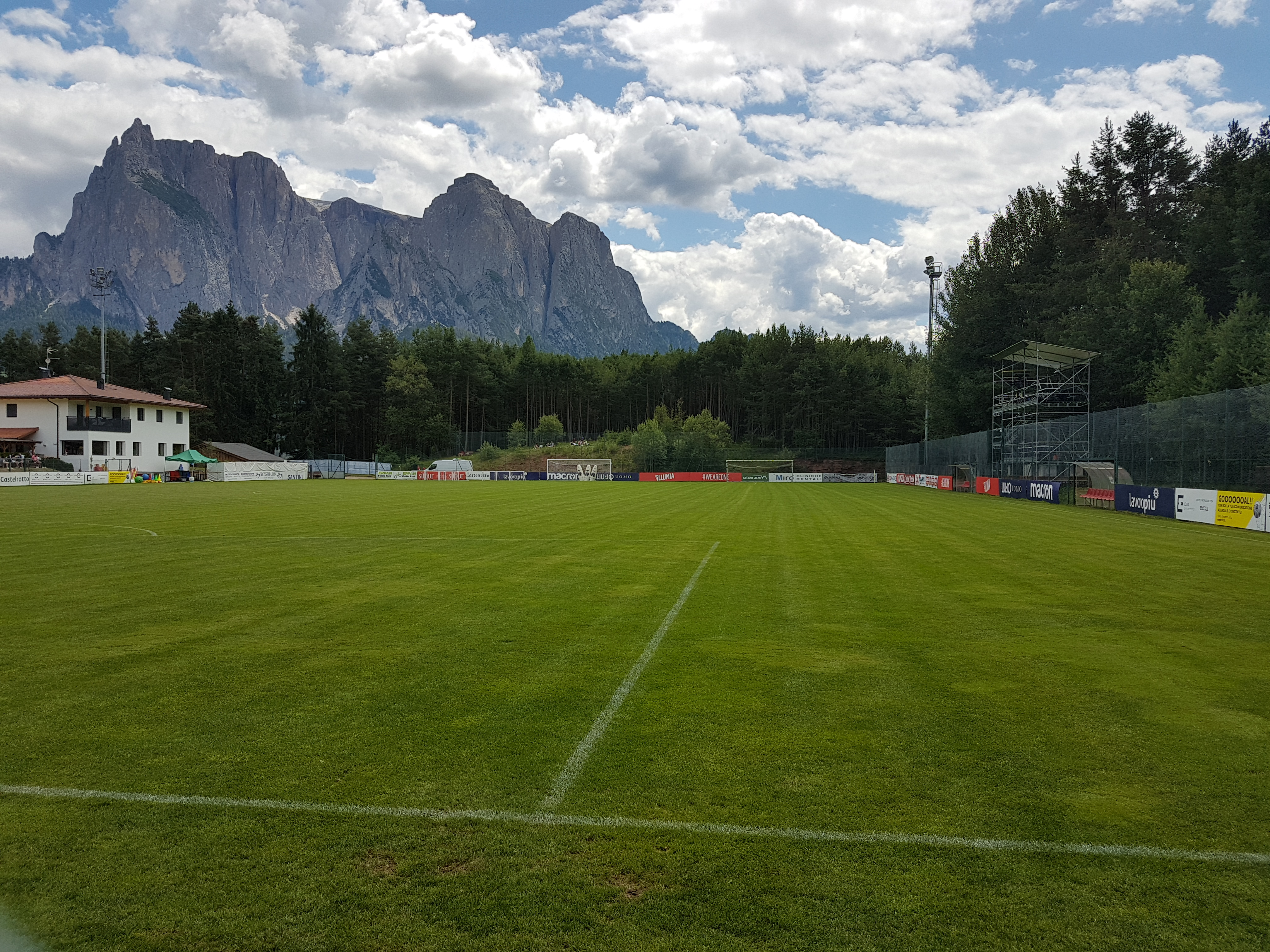 Laranz field (Kastelruth) in 2019